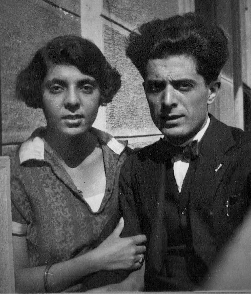 Cesare Cerati con la moglie Alda